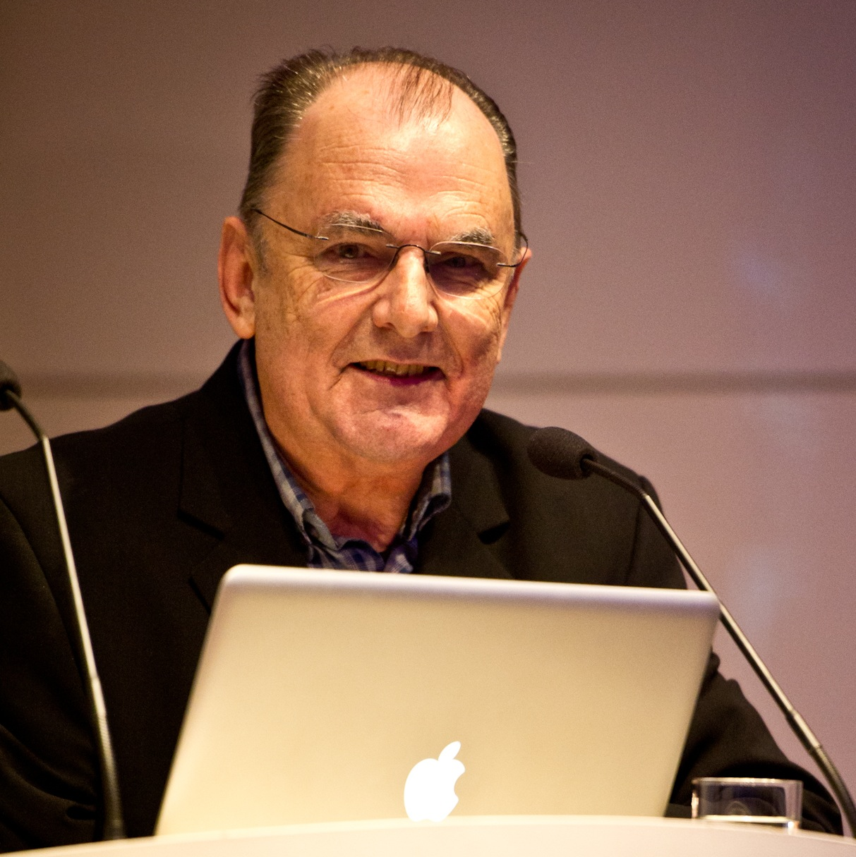 Portrait of Bryan Avery giving a lecture in 2014